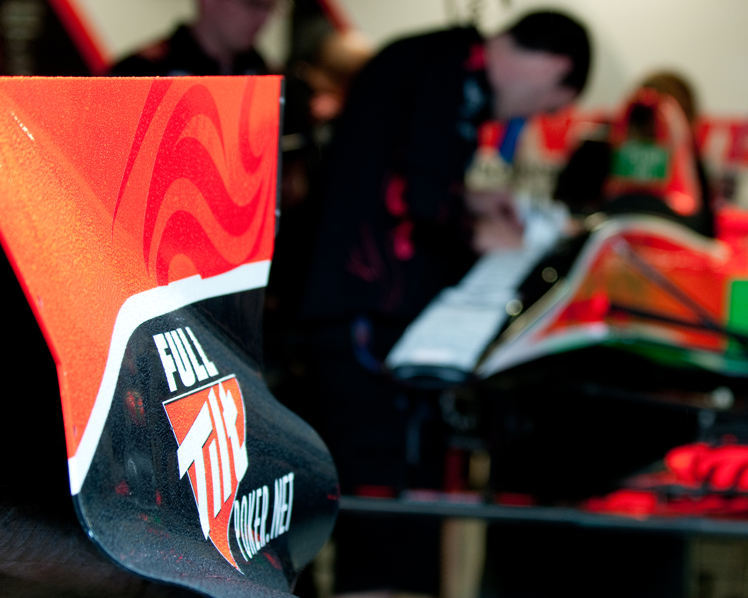 F1 GP of Canada 2010-30